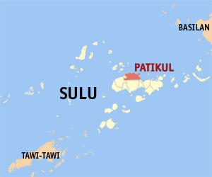 Map of the Sulu showing the location of Patikul